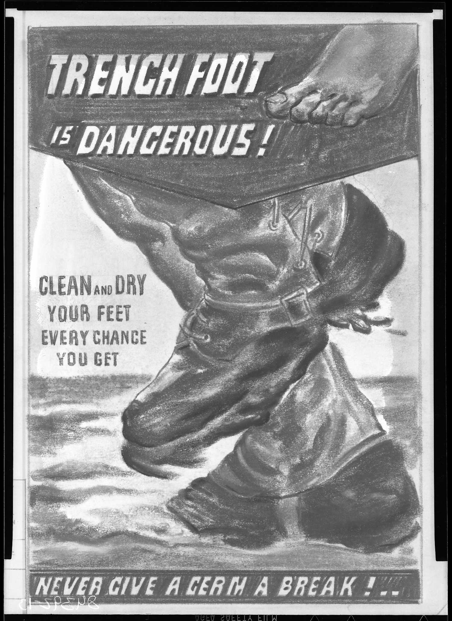 Posters. Health and sanitation. Trench foot is dangerous ! Clean and dry your feet every chance you get. Never give a germ a break! Captain Hack. [World War 2?] Negative; Reef : Reeve 084392-13